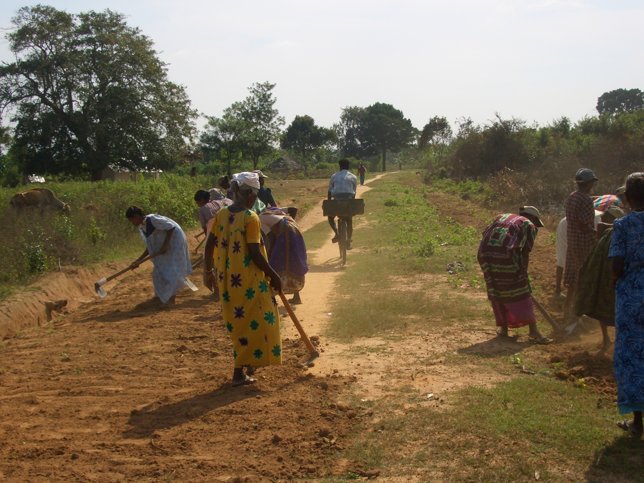 This picture shows a view of Food for work project in Mullaitivu in Sri Lanka